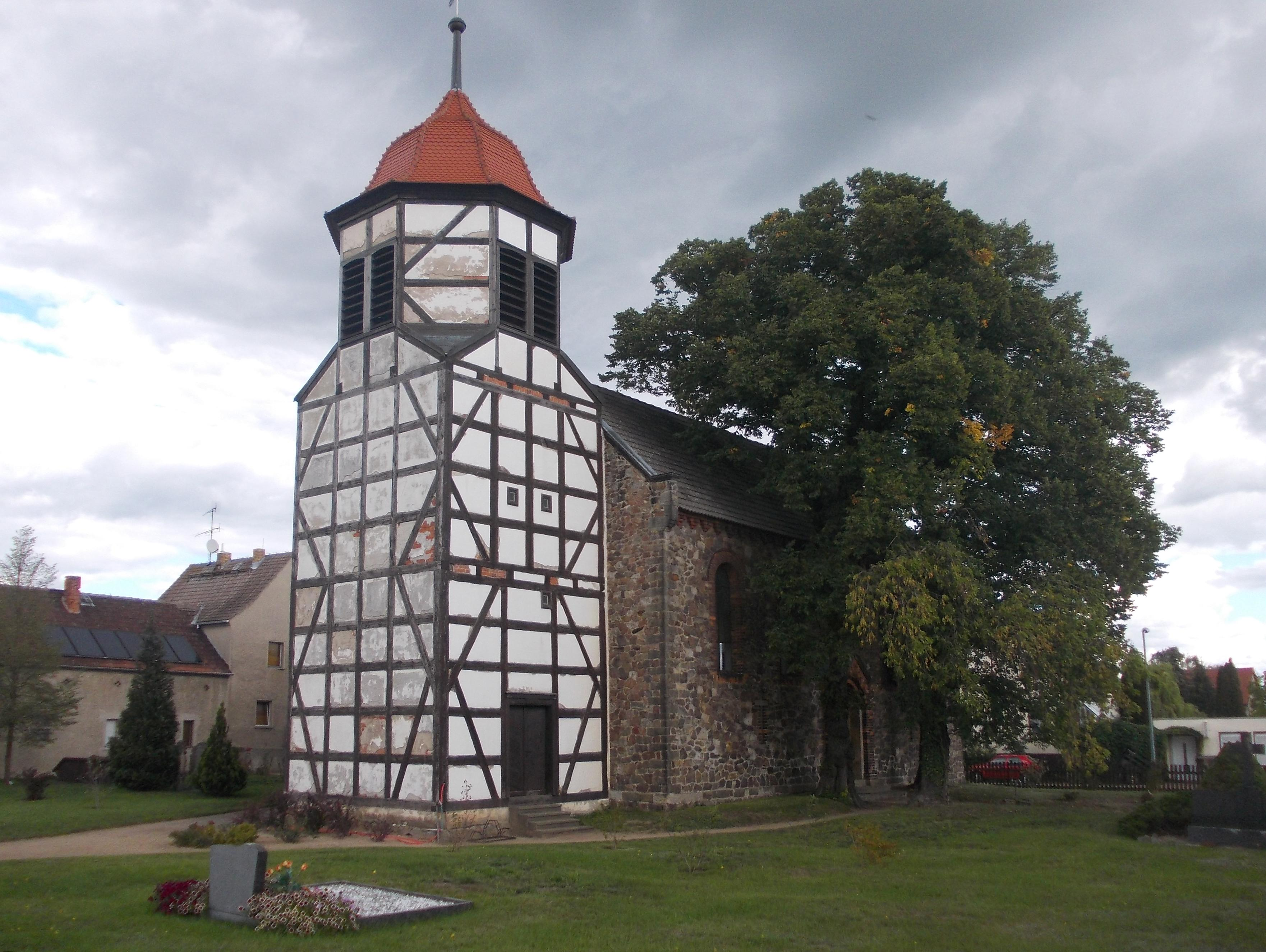 Kölsa church (Falkenberg/Elster, Elbe-Elster district, Brandenburg)